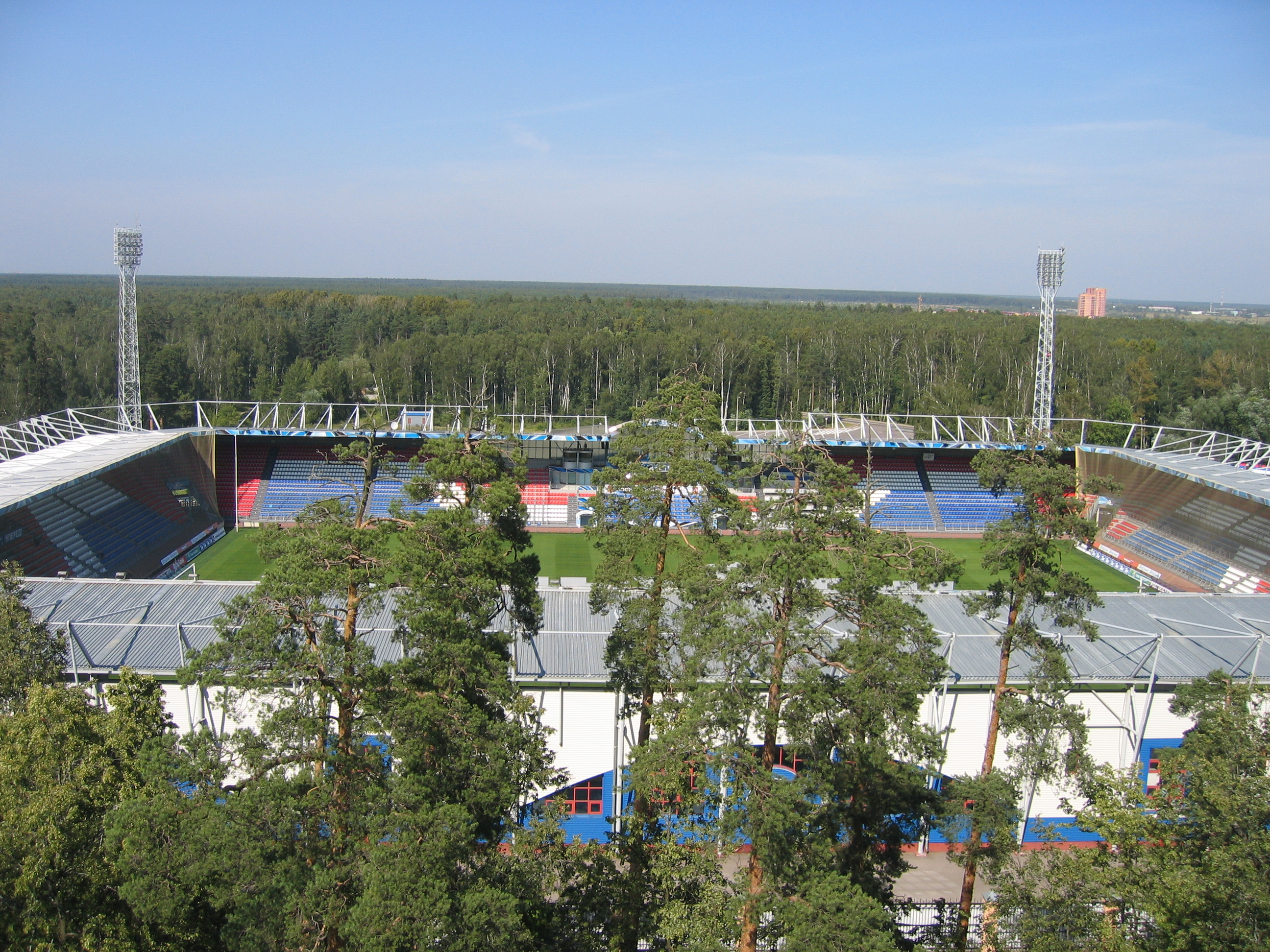 Saturn stadium in Ramenskoye, Russia (Moscow region)